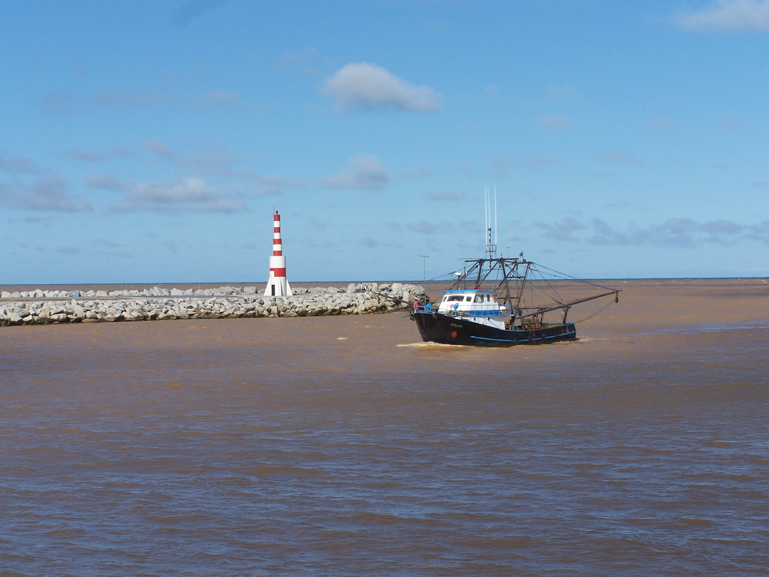 Itajaí Nr 5 Light, North Breakwater, Itajai, Santa Catarina, Brazil